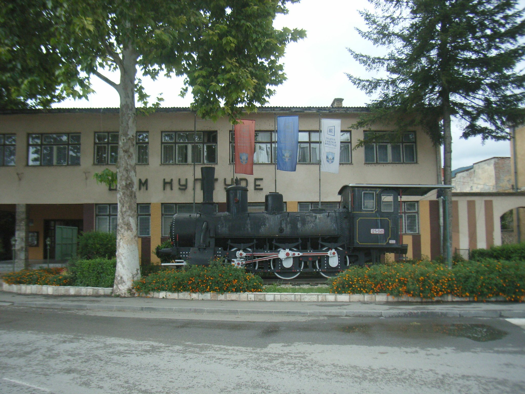 Višegrad in Bosnia and Herzegovina, Cultural House with steam locomotive in the front garden